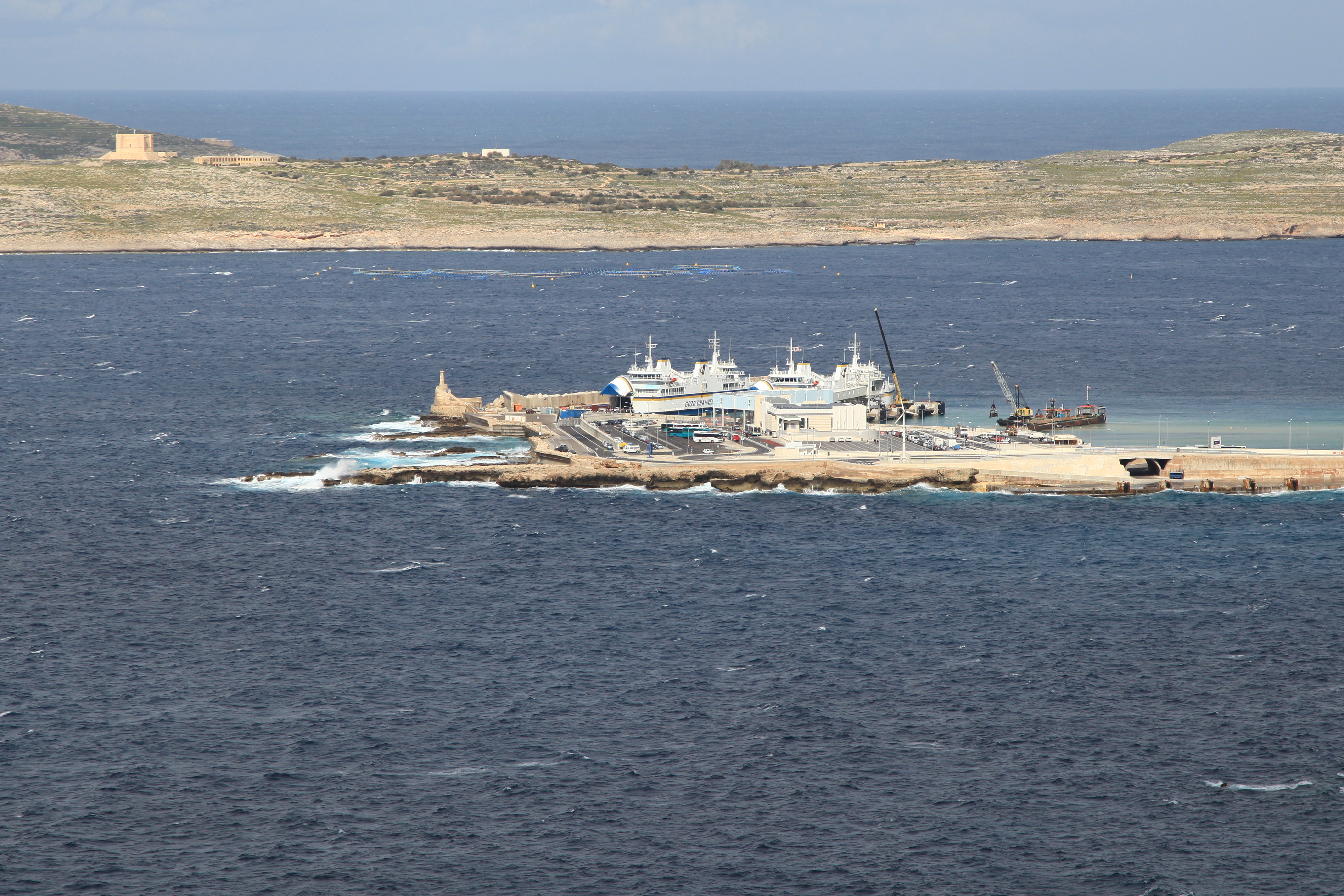 View from Triq tad-Dahar to the Ċirkewwa Harbour in Mellieħa and Comino, Malta